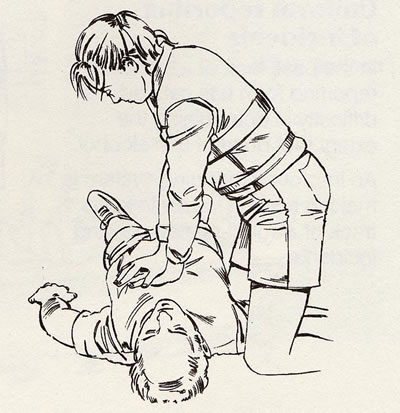 Cardiopulmonary resuscitation on Adult.